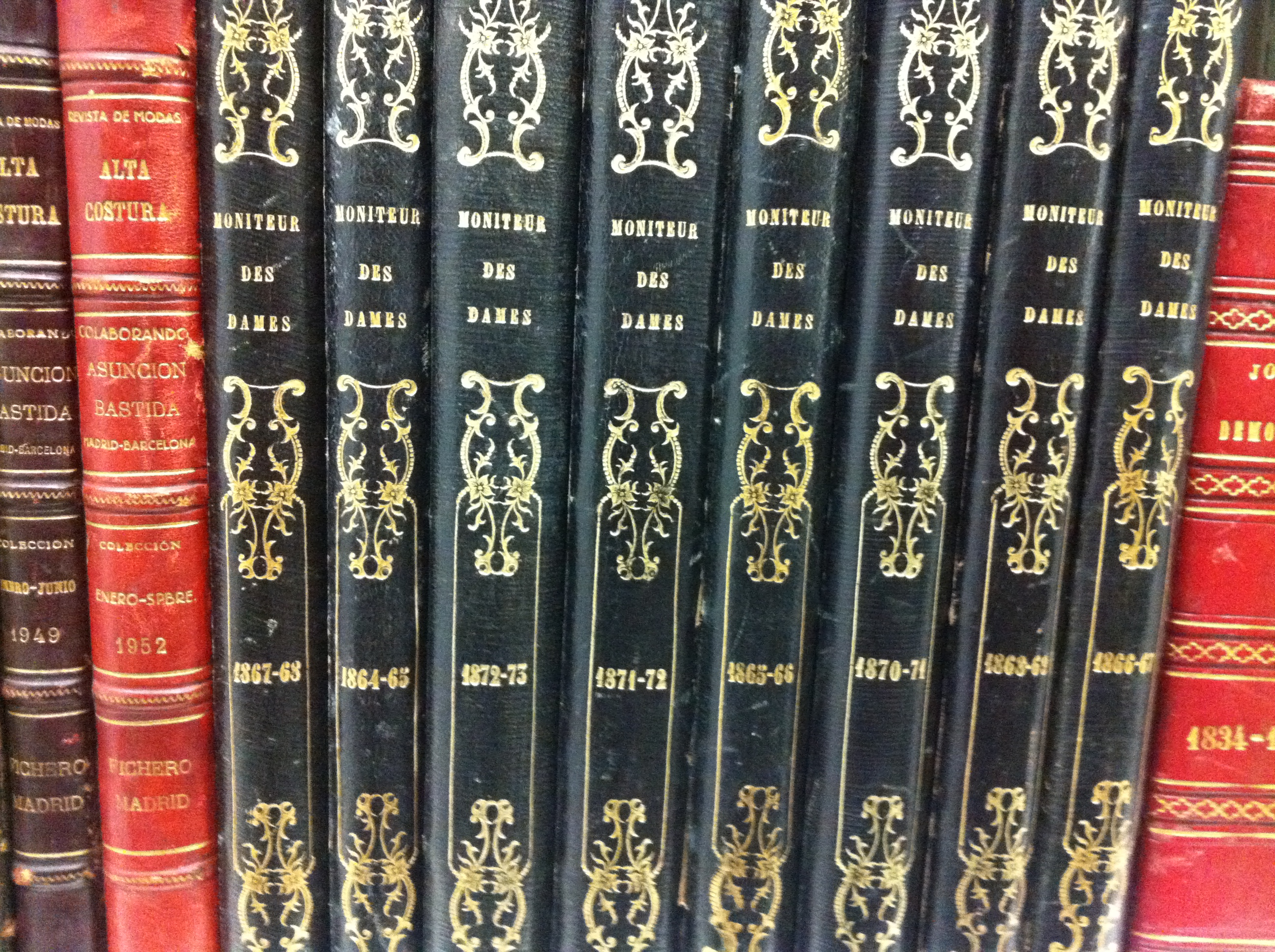 Edit-a-thon and Backstage Pass at Museu del Disseny de Barcelona- April 2014